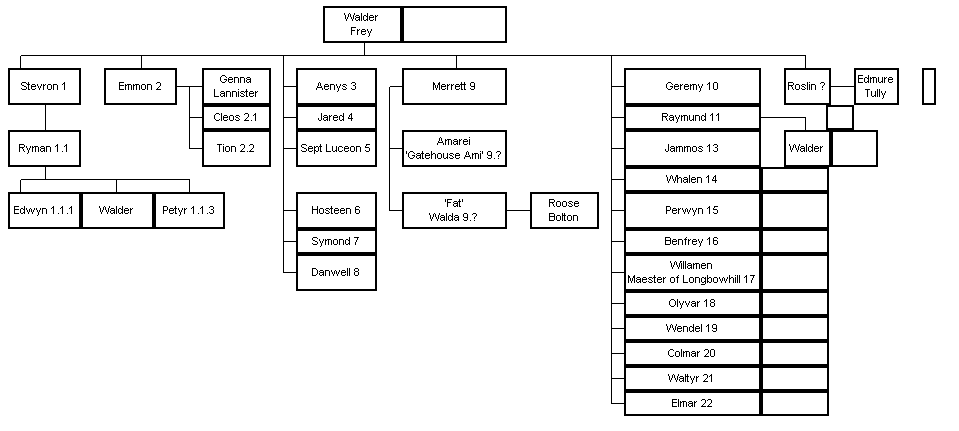 Family tree of the fictional House Frey from the Song of Ice and Fire novels written by George R.R. Martin.